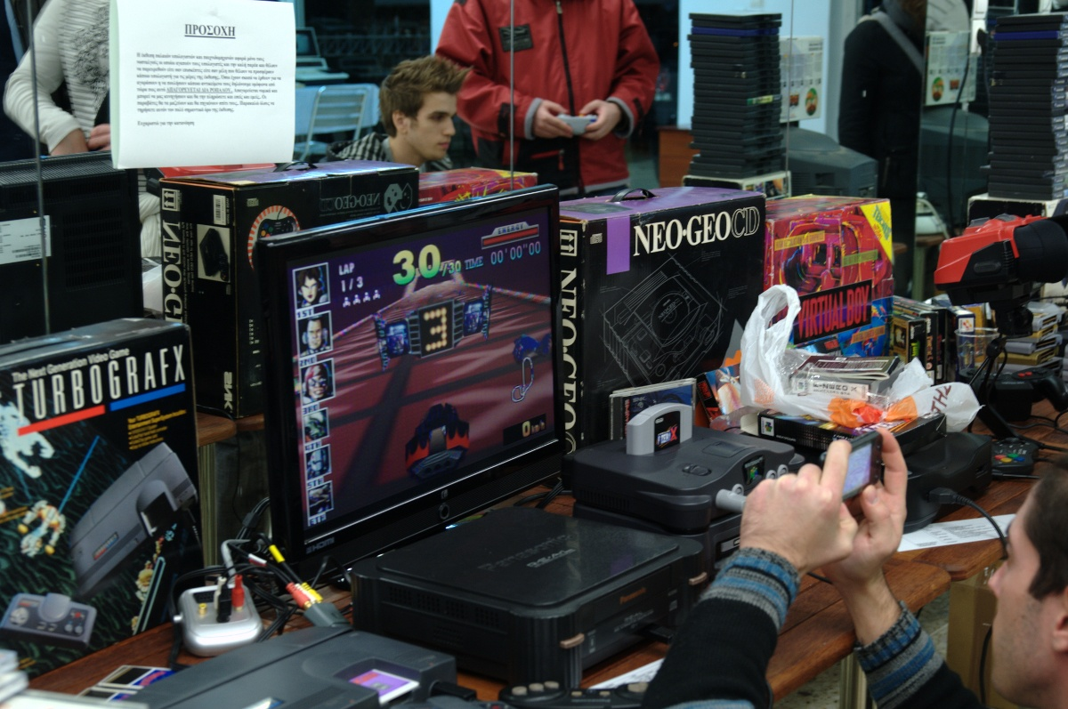 Gaming Section 1 - Retrosystems 2010 Tags: exhibit retrocomputing oldcomputers silogomaniacom collectingcomputers retrosystem2010 Retrosystems 2010 This retro-computing (and gaming) exhibit on the 4th and 5th of December, 2010, was organised by a forum of collectors, and displayed a number of the Classics.